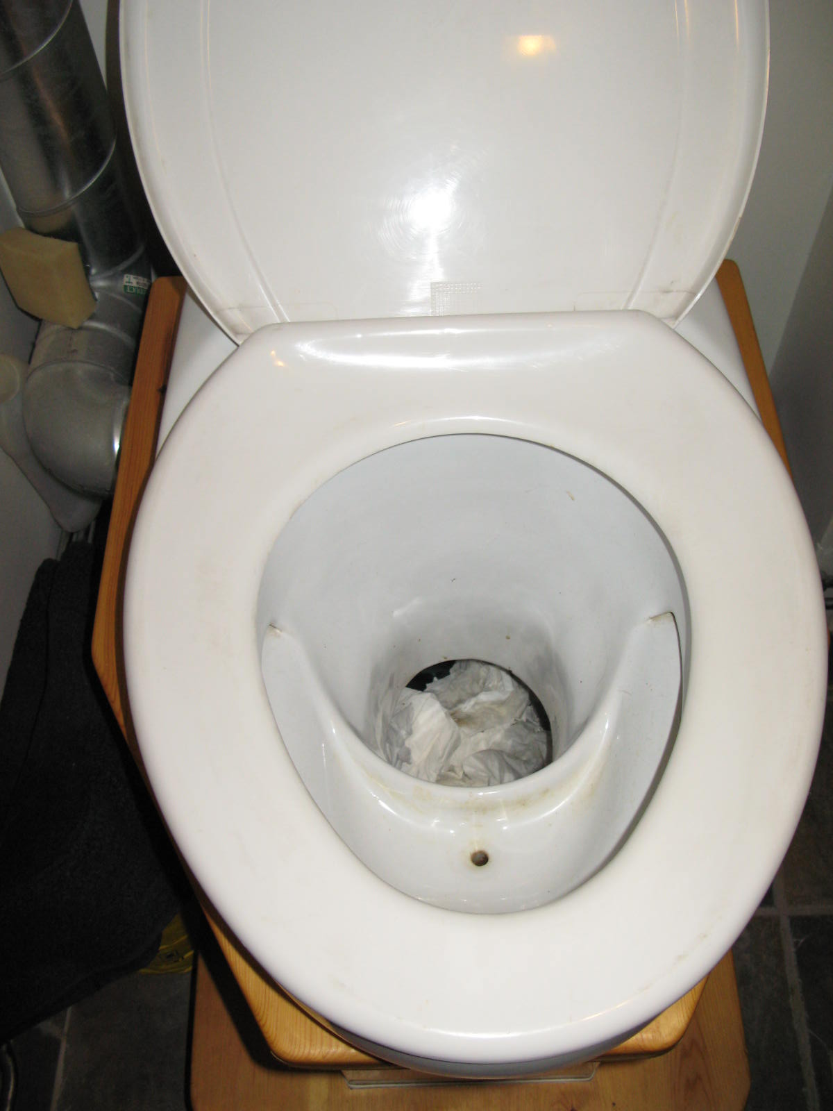 Photograph taken in Stockholm field trip (August 2007)